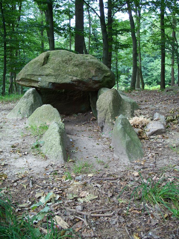 Albersdorf Steingrab (Papenbusch)